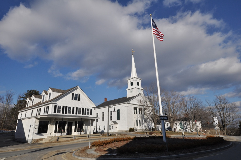 The church and rotary in the center of Dublin, New Hampshire; part of the Dublin Village Historic District.